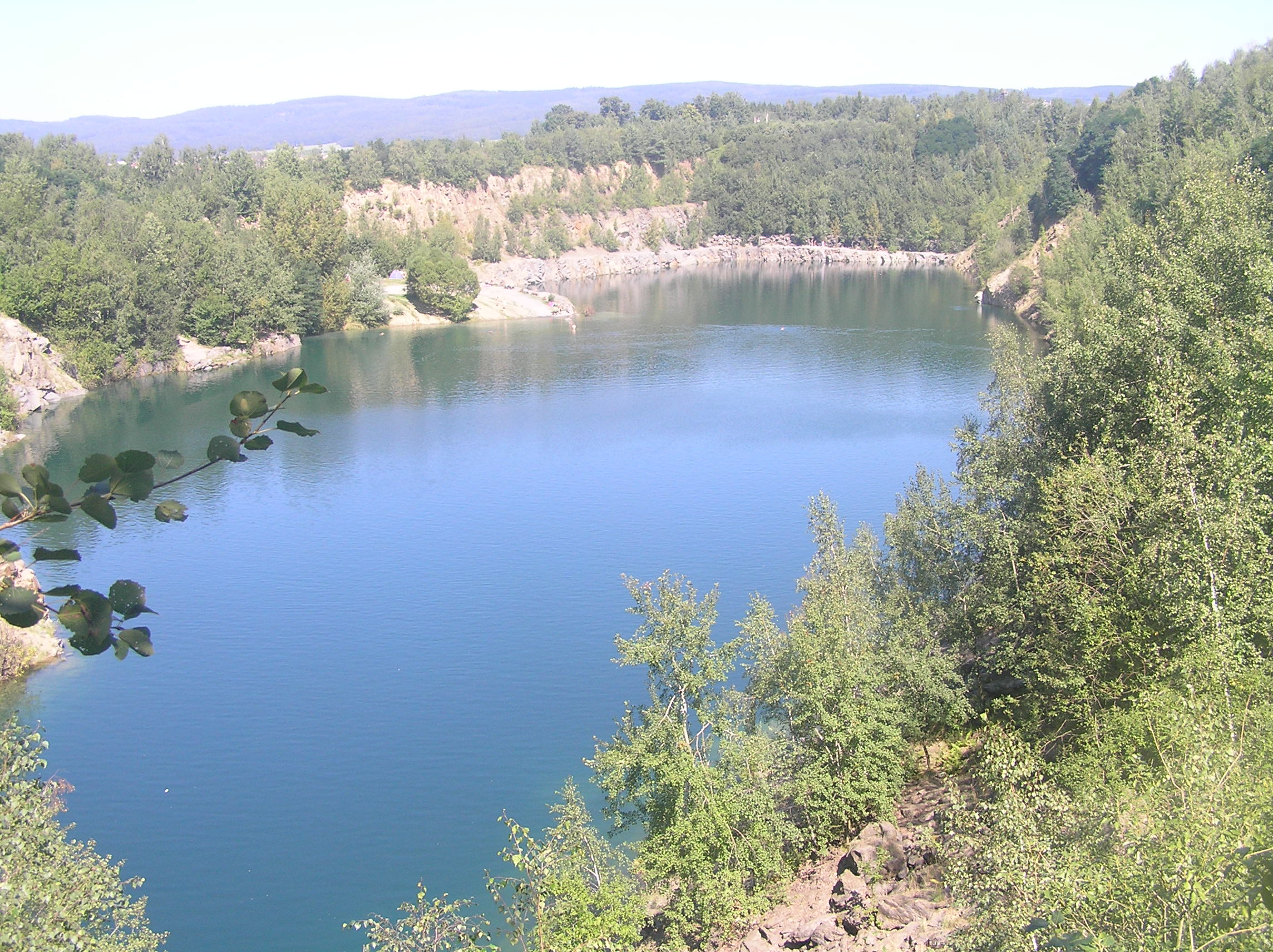 Abandoned sandstone (greywacke) quarry near the village Výkleky, Olomouc Region, eastern Czech Republic. According to the geological maps of the region, the greywacke is of Early Carboniferous age.